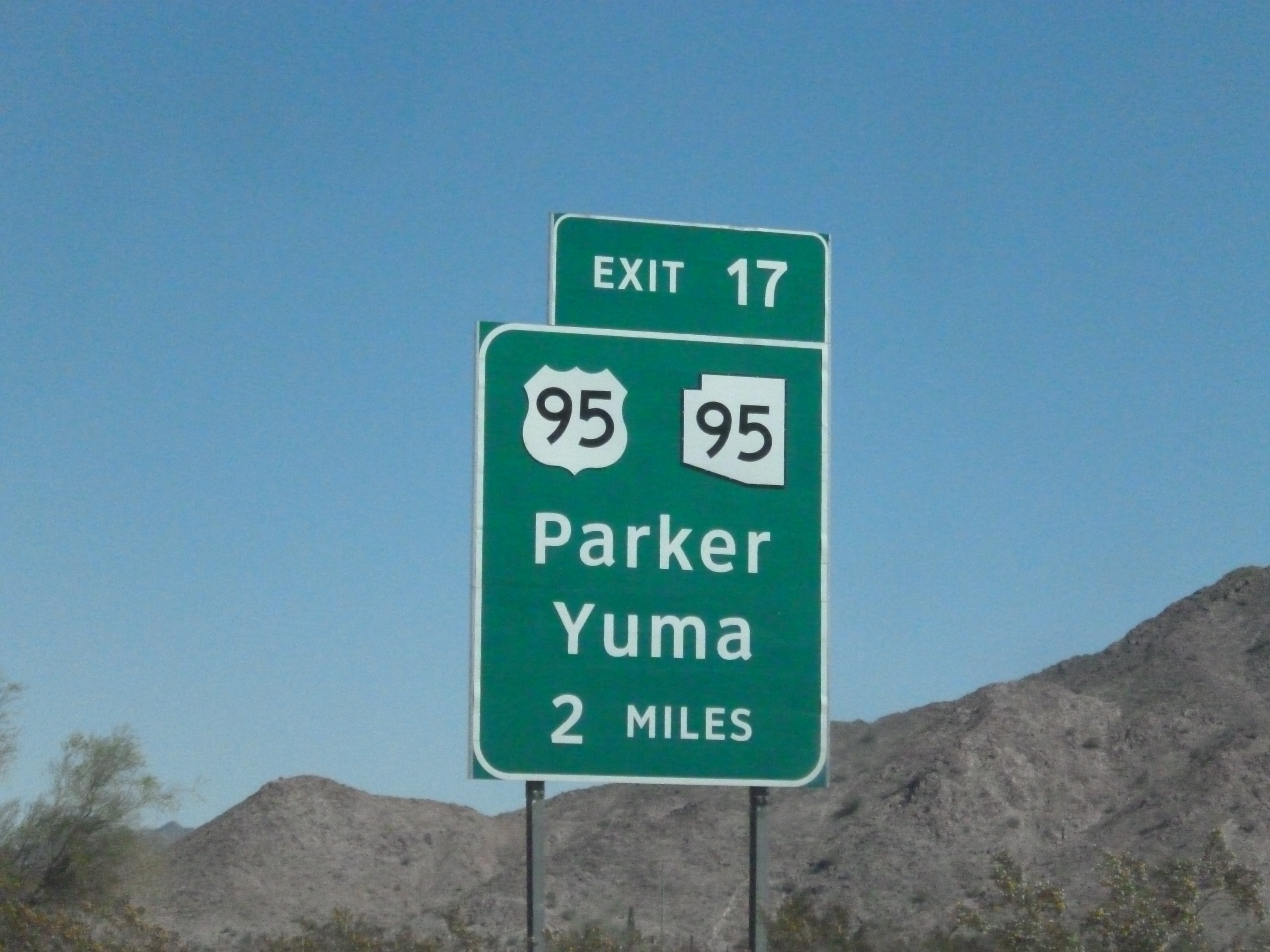 Sign on I-10 showing US 95 exit.